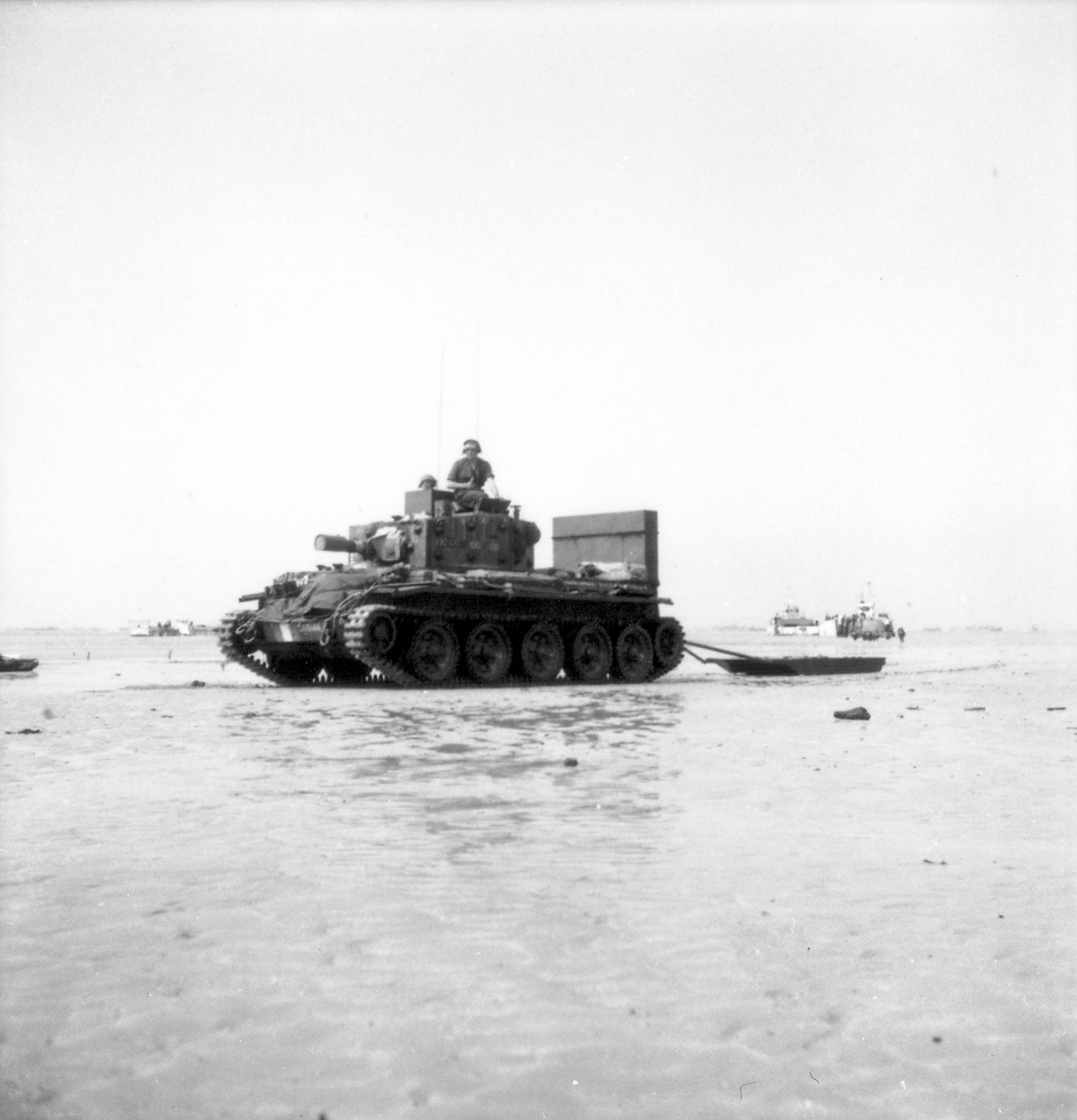 A British Centaur IV of the Royal Marine Support Group. It is towing an ammunition sled.